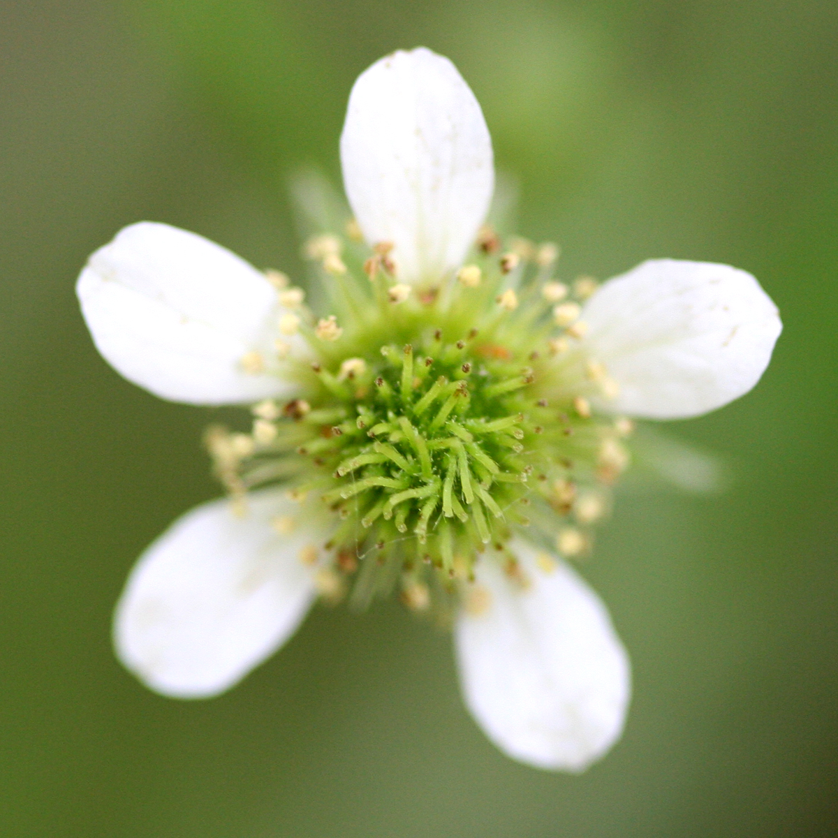 Geum canadense (white avens) photographed in the town of Skaneateles, NY